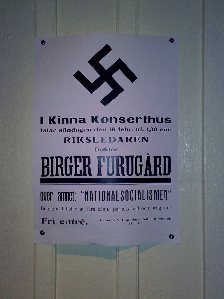 Swedish Nazi poster from 1933 annonuncing a speech by Dr. Birger Furugard on the subject "National Socialism". Photo taken in the Army Museum in Stockholm.